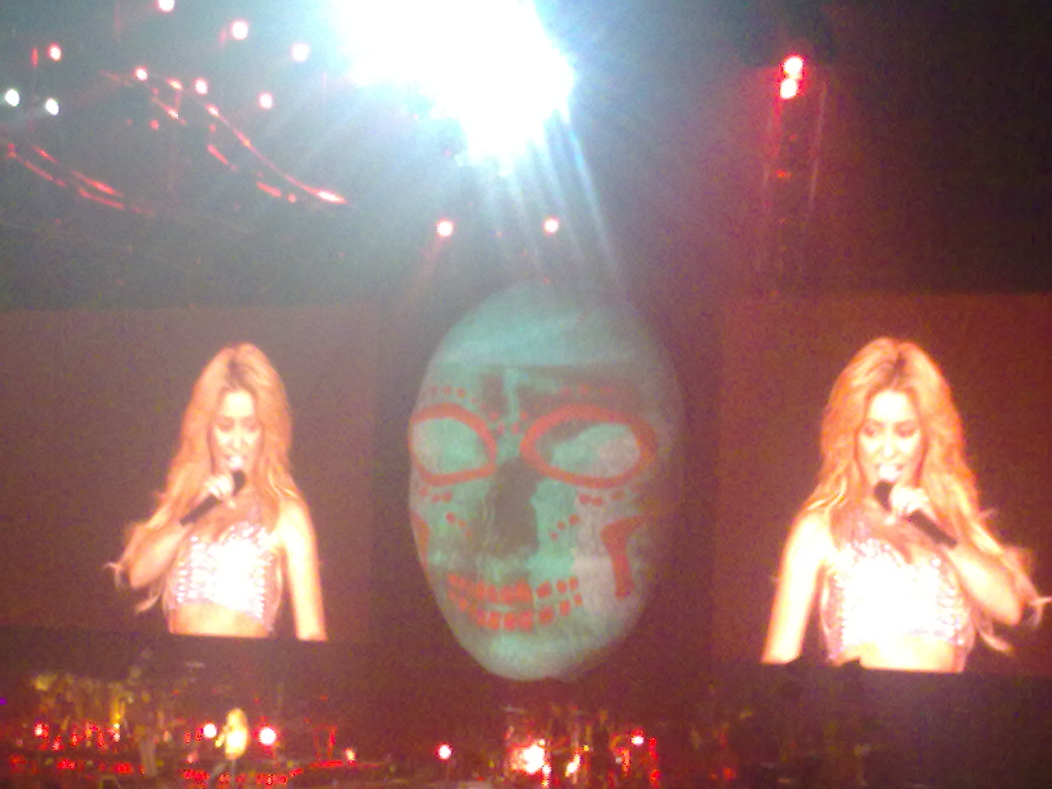 Taken during the European leg of Shakira's The Sun Comes Out World Tour. It is during her performance of "Loca", the lead single from her new album The Sun Comes Out. This particular performance is taken from Manchester Evening News Arena in the United Kingdom on December 14, 2010.